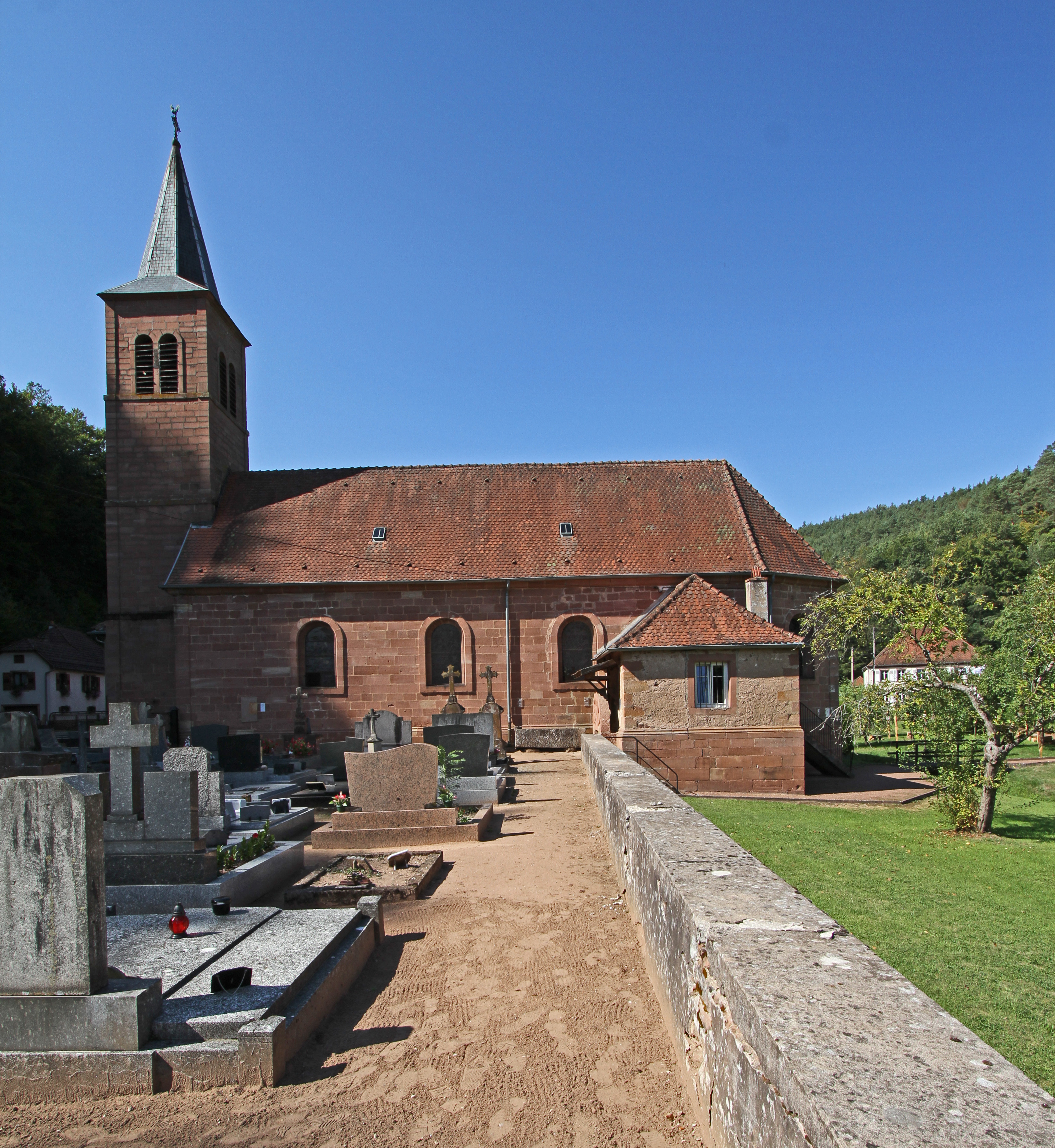 Church of Saint Elisabeth in Sturzelbronn.